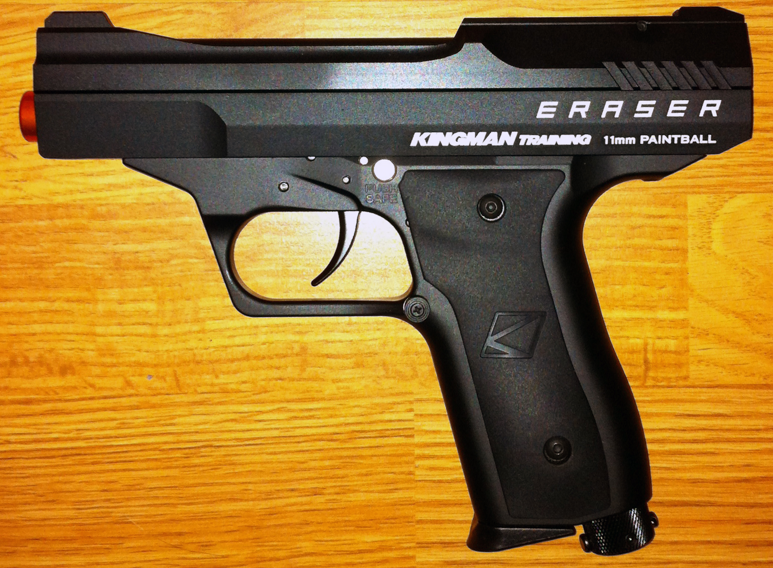 Kingman Training - Eraser (All aluminum construction) - Jet Black